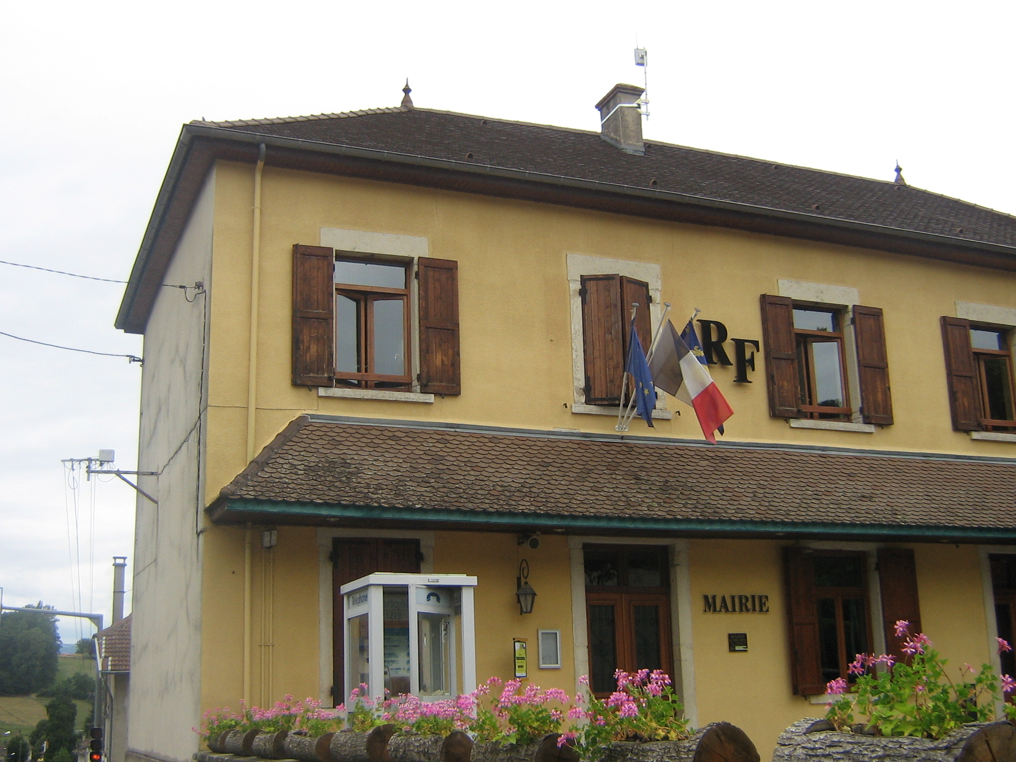 Image of Saint-Sorlin-de-Morestel.